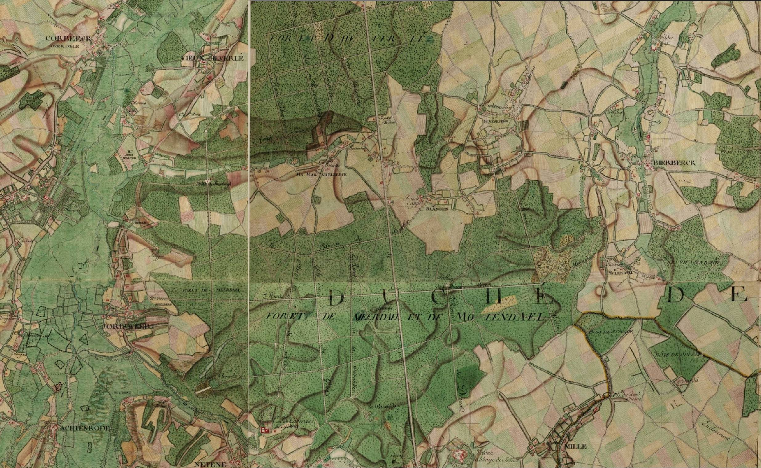 Meerdaalwoud_en_Heverleebos,_Ferrariskaart,_Belgium,_1775.jpg